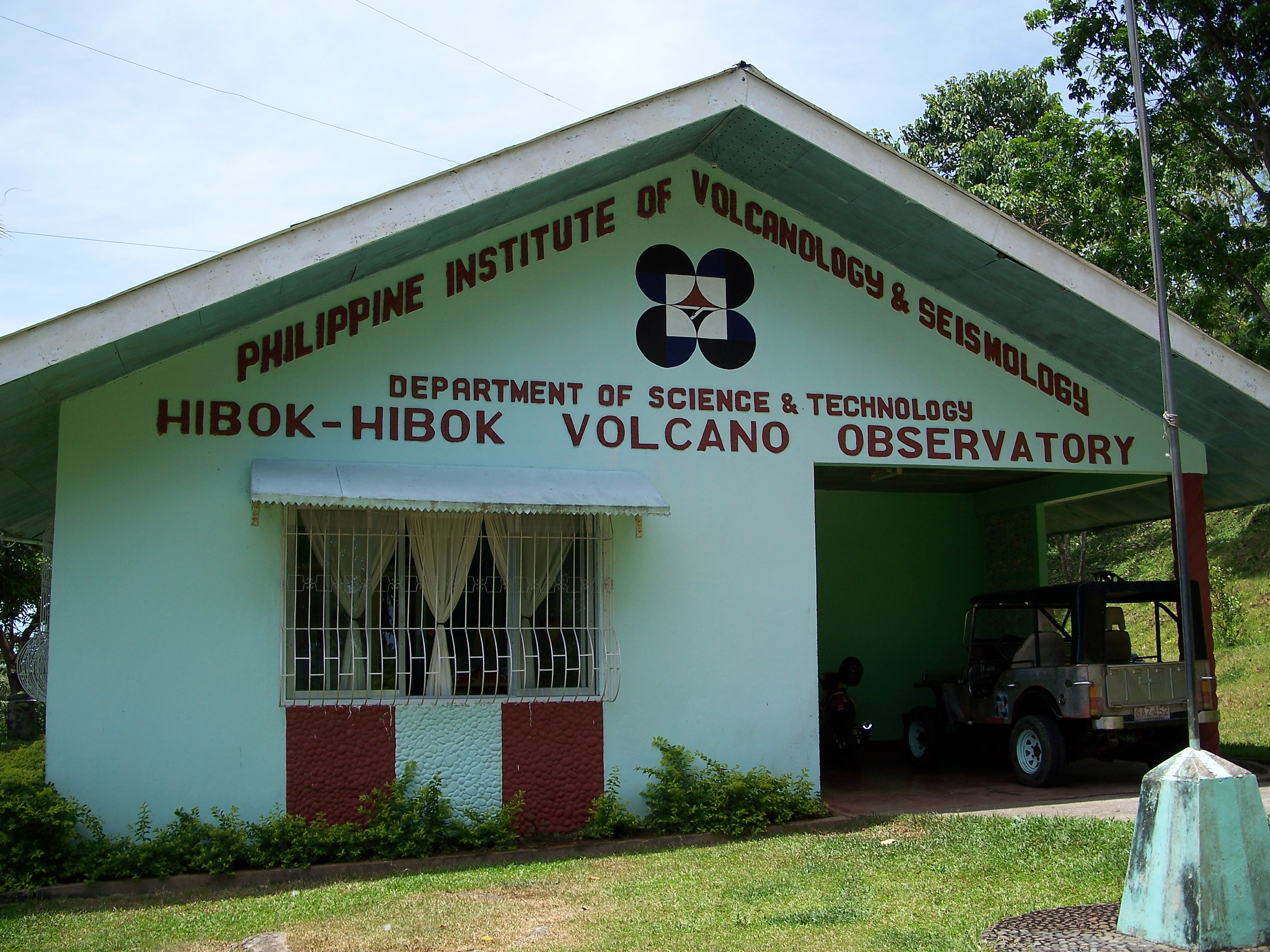 Phivolcs Hibok-Hibok Volcano Observatory in Camiguin